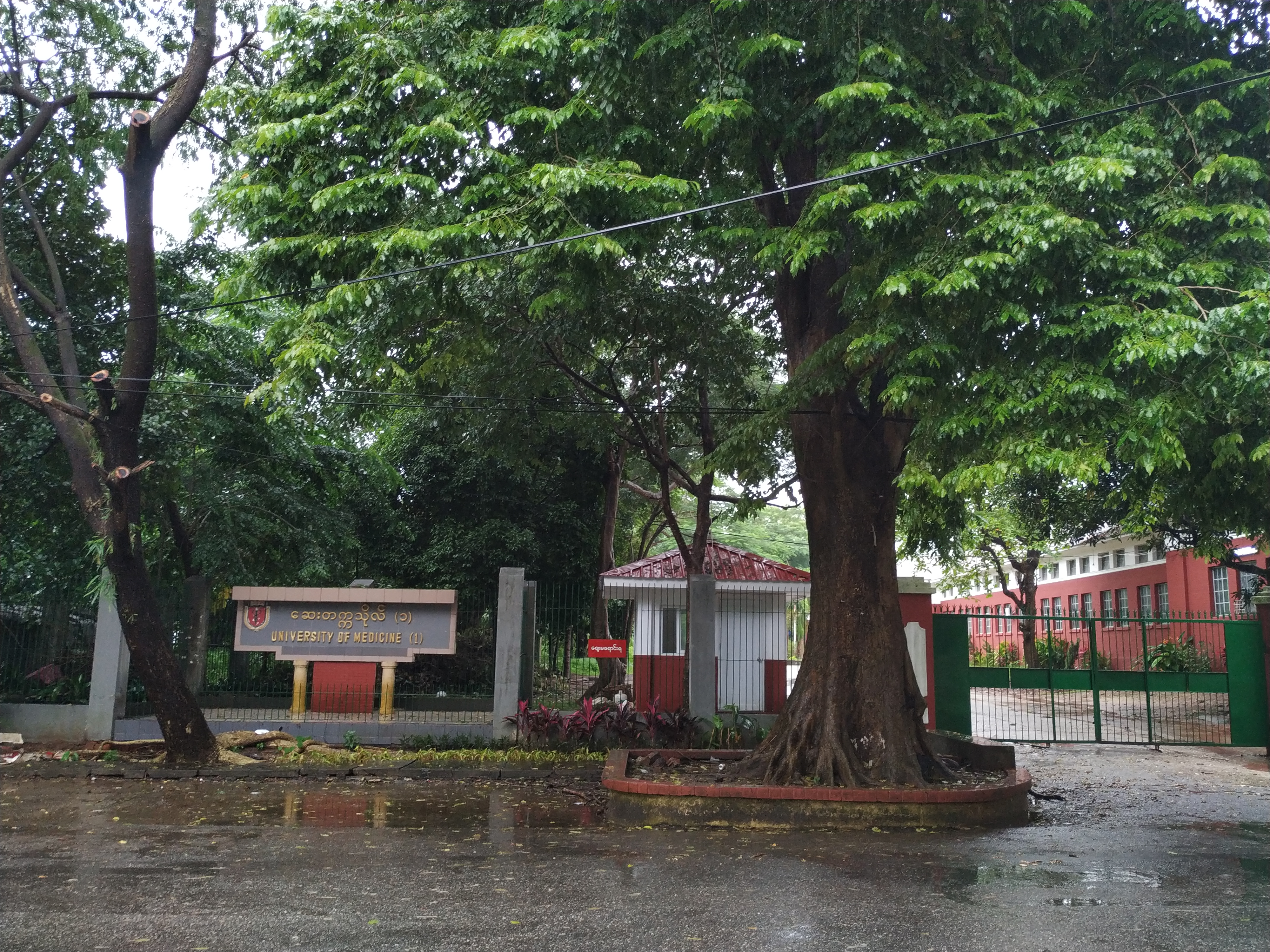 University of Medicine (1), Thaton Street, Yangon မြန်မာဘာသာ: ဆေးတက္ကသိုလ် (၁)၊ သထုံလမ်း၊ ရန်ကုန်